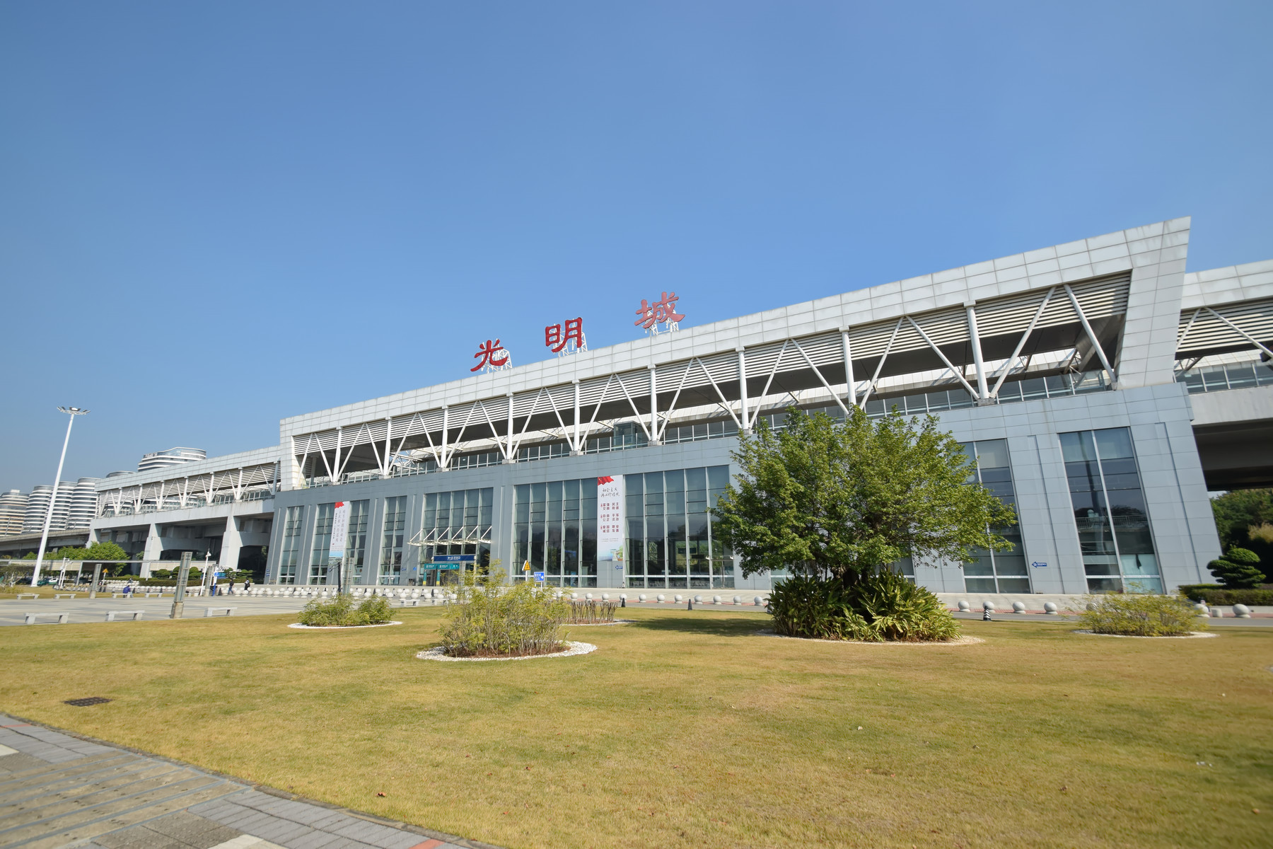 Guangmingcheng Railway Station, Guangzhou-Shenzhen-Hong Kong High-Speed Railway